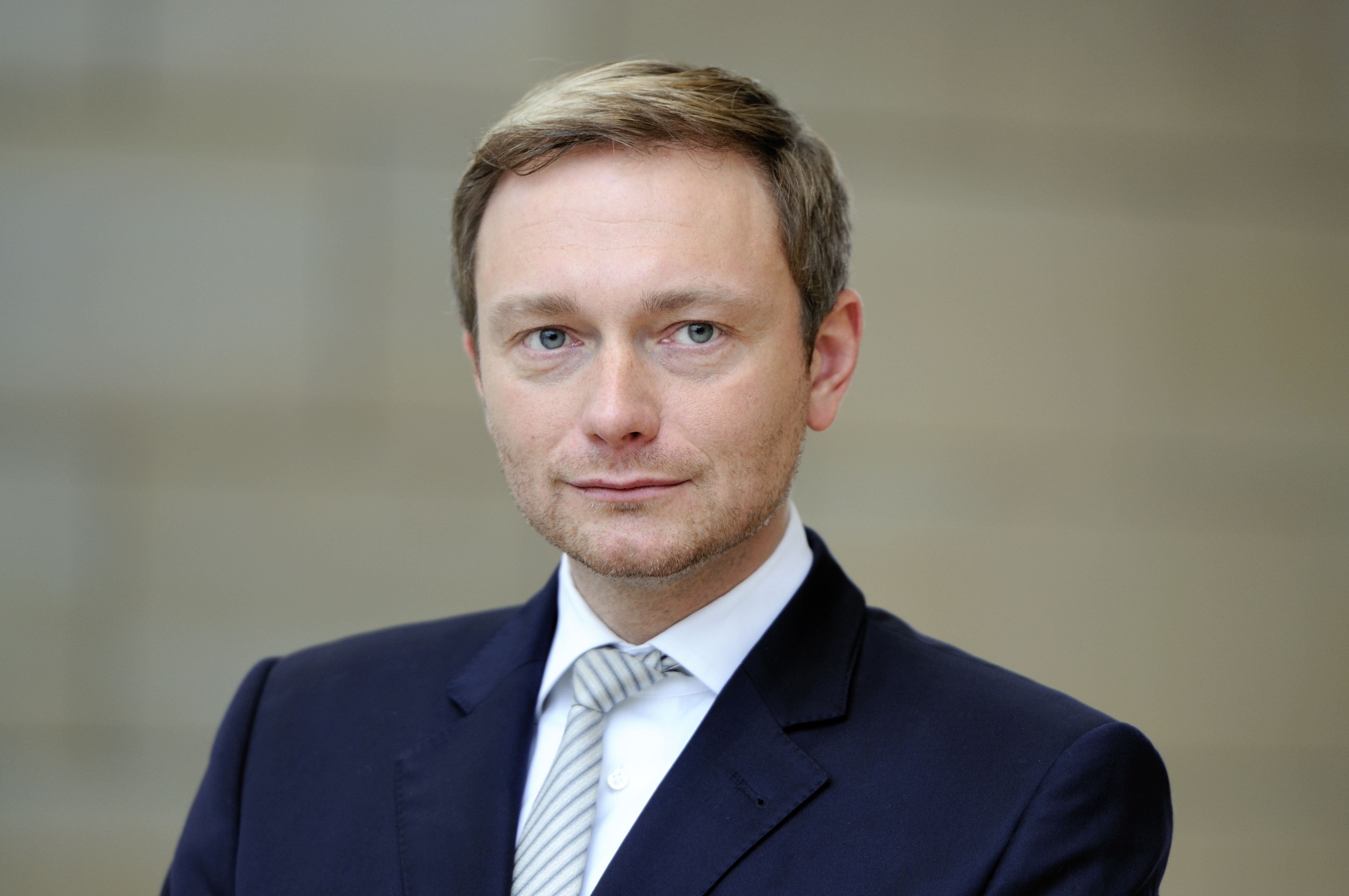 Christian Lindner, North Rhine-Westphalian politician (FDP) and member of the Landtag of North Rhine-Westphalia.